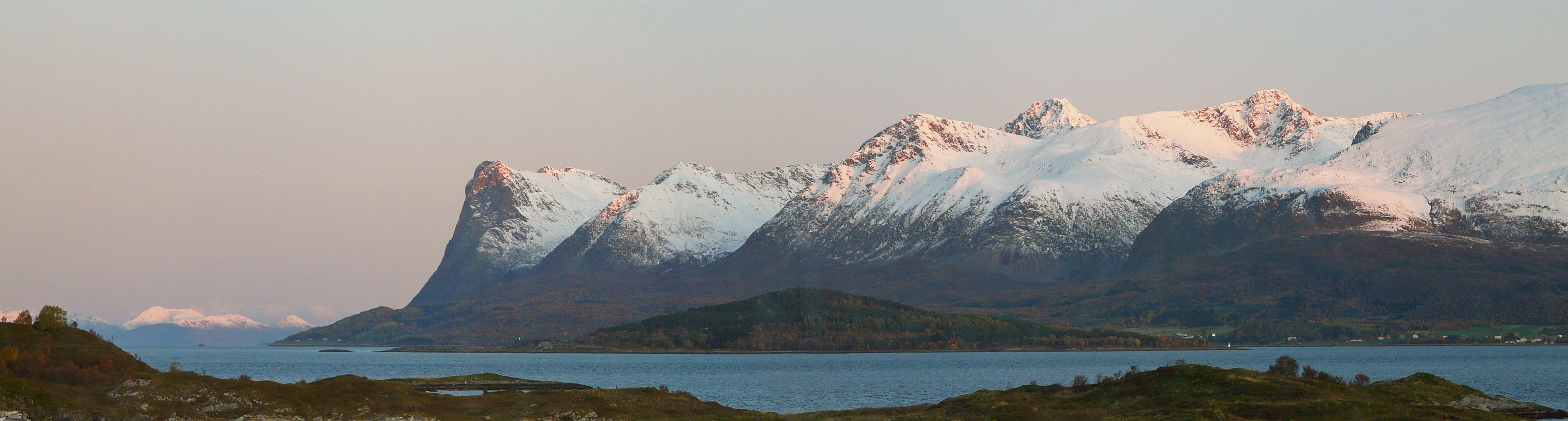 A view to some south coast summits of Grytøya from the southeast near Harstad from a Hurtigruten ship (M/S Polarlys) in 2009 October. There are visible summits such as Toppen (759 m), Storfjellet (809 m), Nona (1,012 m) and Trolltinden (919 m).